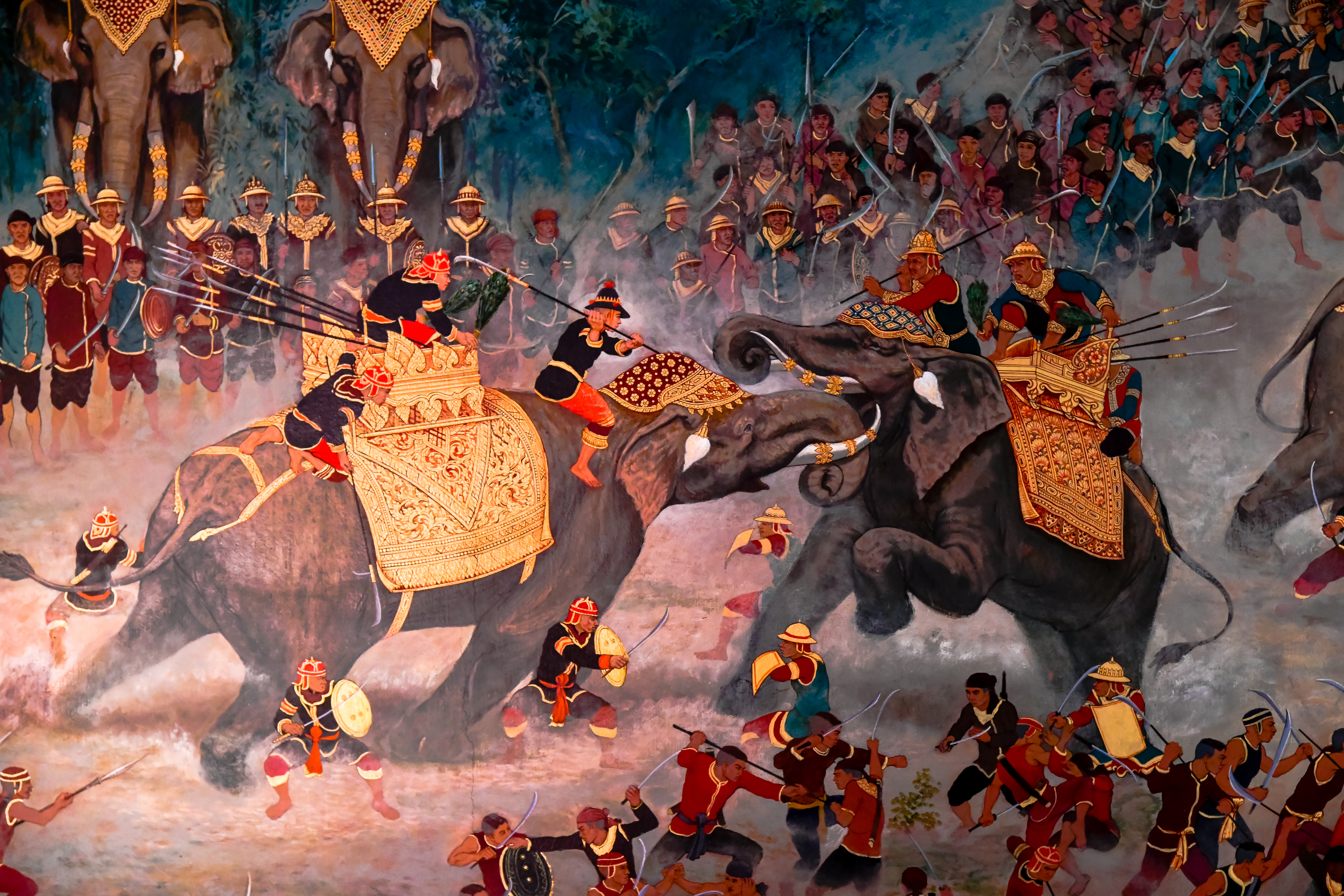 ยุทธหัตถี History of Thailand